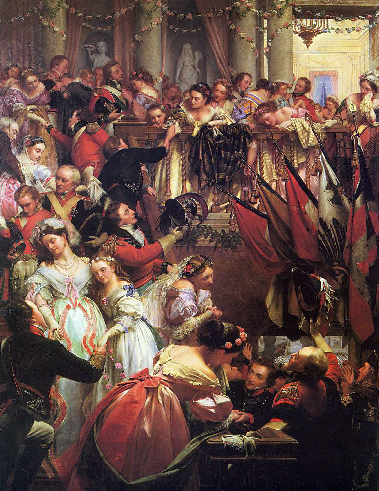 This presumably attempts to depict the Duchess of Richmond's famous ball on the eve of the battle of Waterloo (as dramatized in Thackeray's Vanity Fair). This is an "anti-Regency" picture, since the artist seems to be intentionally avoiding depicting women's fashion styles that would be accurate to the year 1815. Instead, the women's clothing shown seems to be based on elements of 1830's and early 1860's fashions, and shows no particular resemblance to the actual styles of 1815 (except perhaps in having a slightly highish waistline). In those mid-Victorian days, before the rise of Kate Greenaway and the "Artistic Dress movement", it seems likely that some sober-minded people would have felt slightly uncomfortable to be reminded that their mothers or grandmothers had once promenaded about in Directoire/Empire/Regency fashions (which could be considered indecent according to Victorian norms) -- and that many would have found it somewhat difficult to really empathize with (or take seriously) the struggles of a heroine of art or literature if they were being constantly reminded that she was wearing such styles. (See File:1857-regency-fashion-crinoline-comparison-joke.png.)